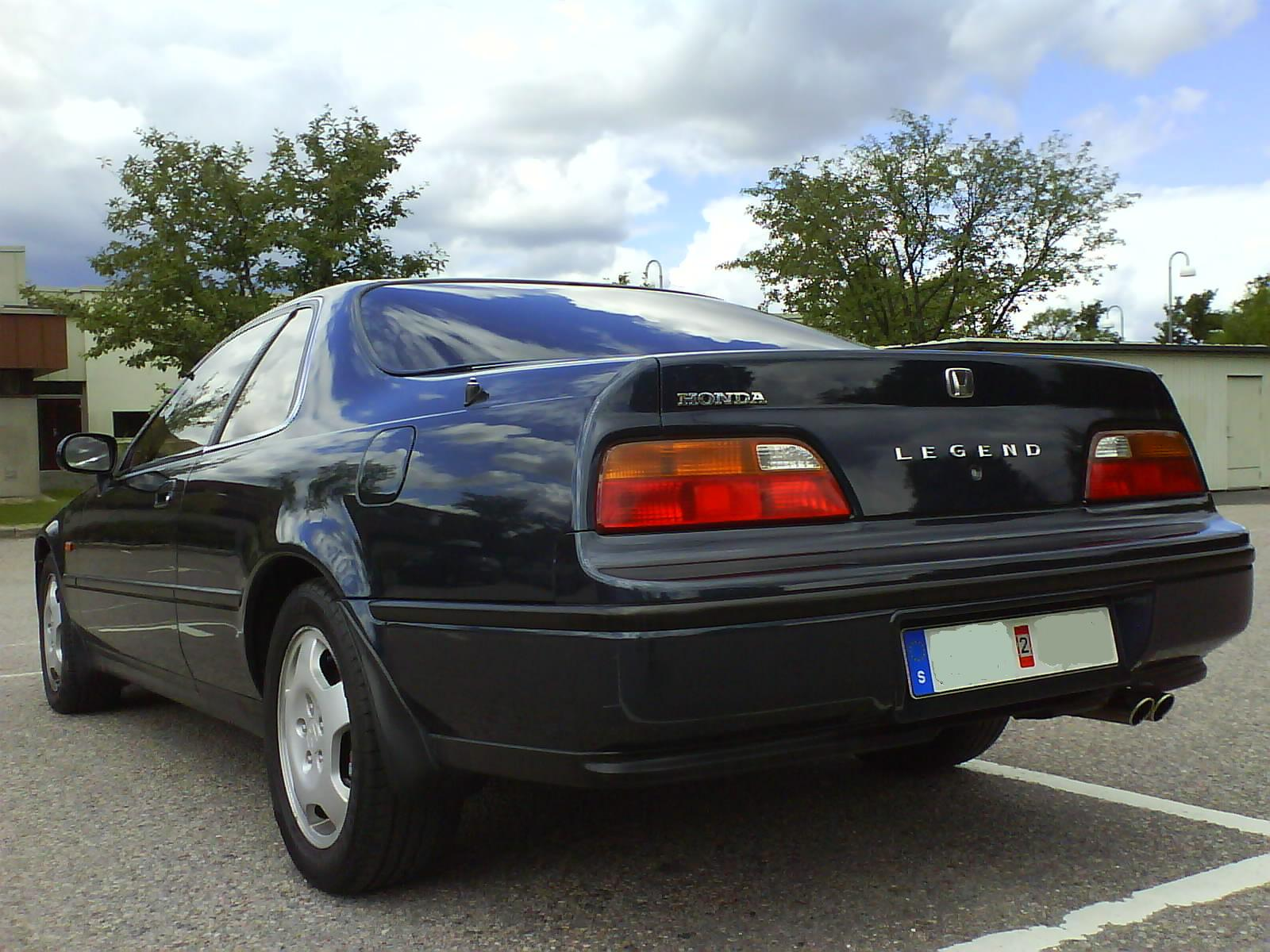 Honda Legend Coupe 95